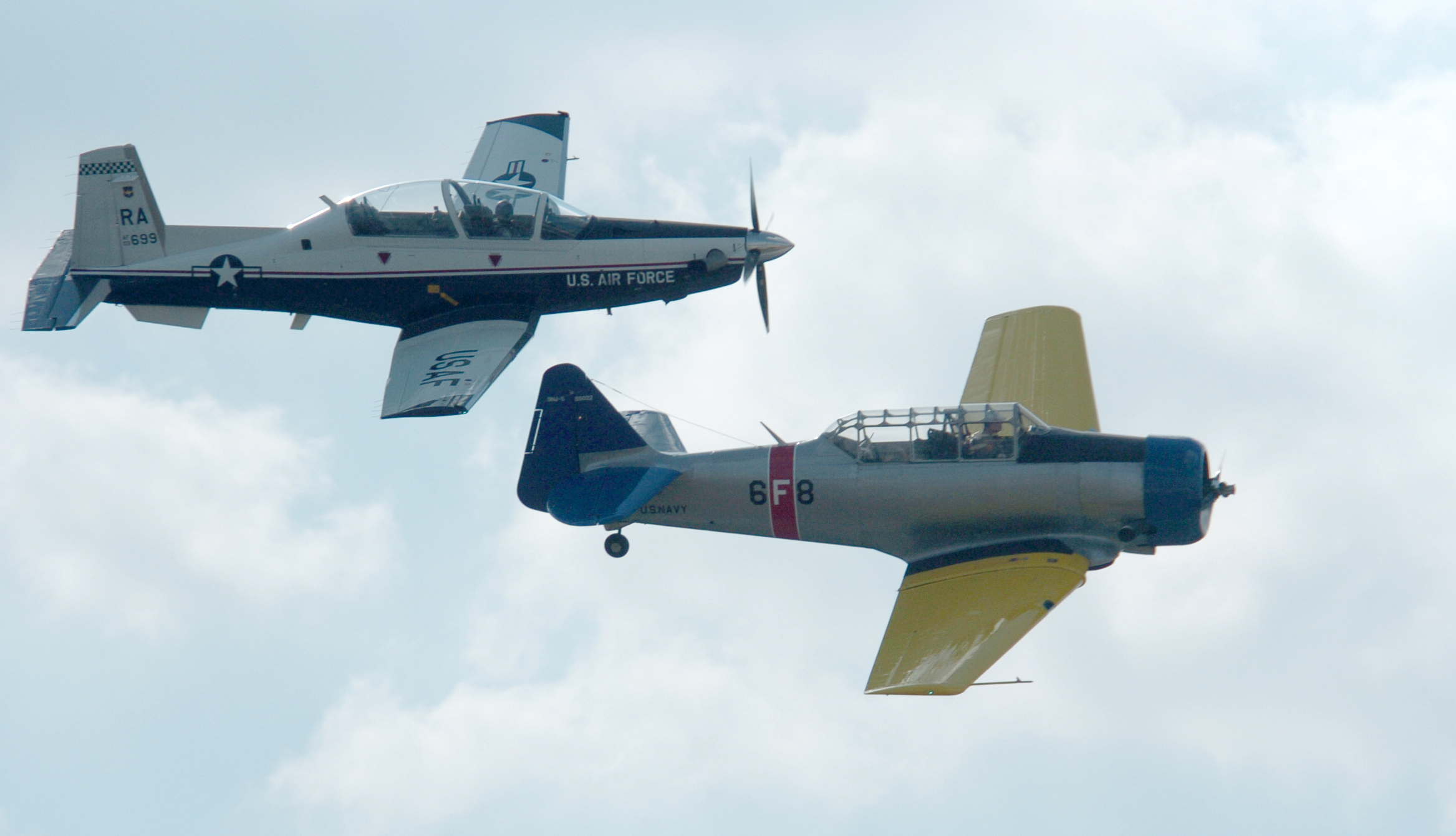 An original T-6A Texan aircraft, right, flies with the new U.S. Air Force T-6 aircraft during the 2007 Randolph Air Force Base (AFB) Air Show at Randolph AFB, Texas, Nov. 4, 2007. Location: Randolph Air Force Base